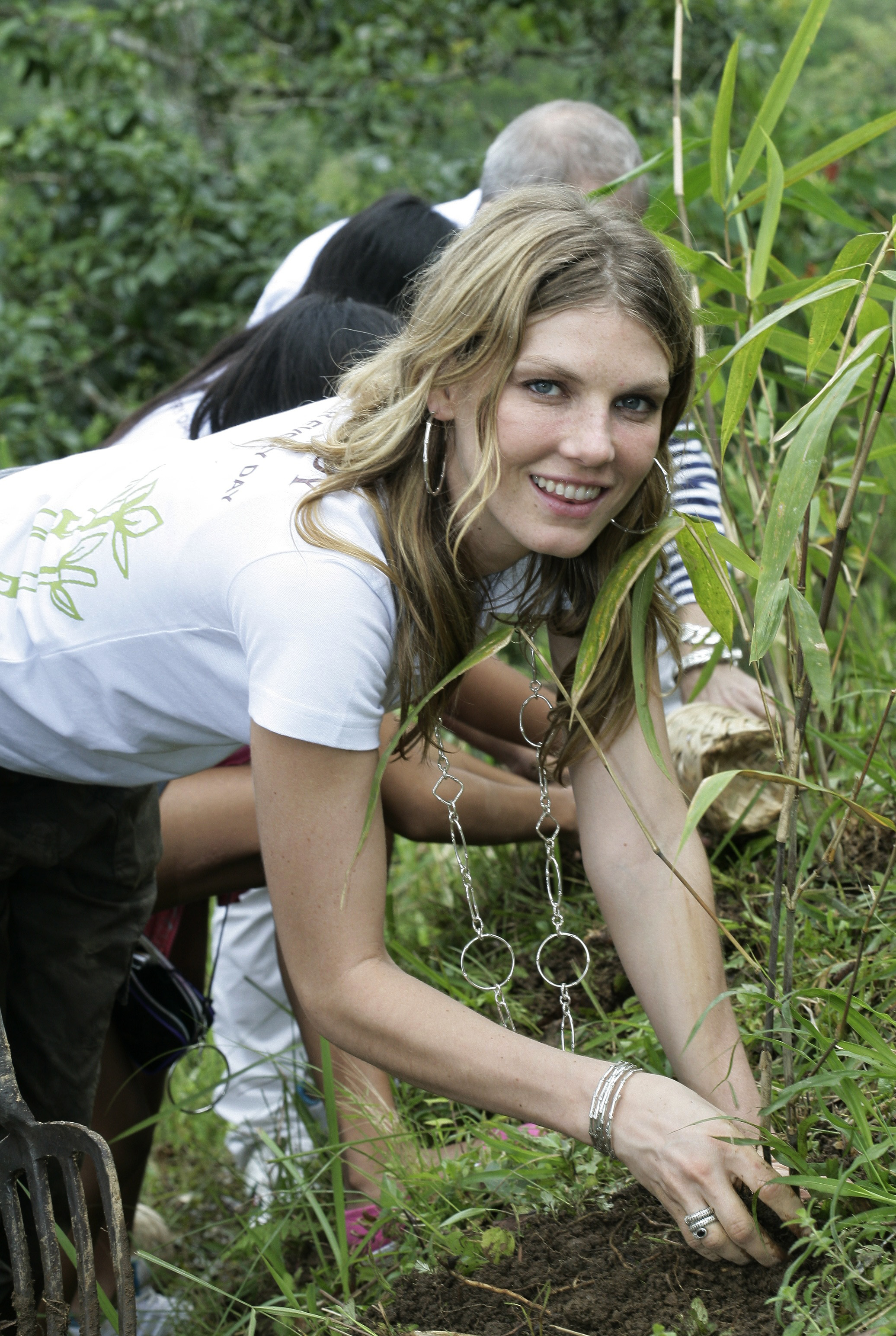 Angela Lindvall is Planting Bamboo Seedlings in Bali, Indonesia